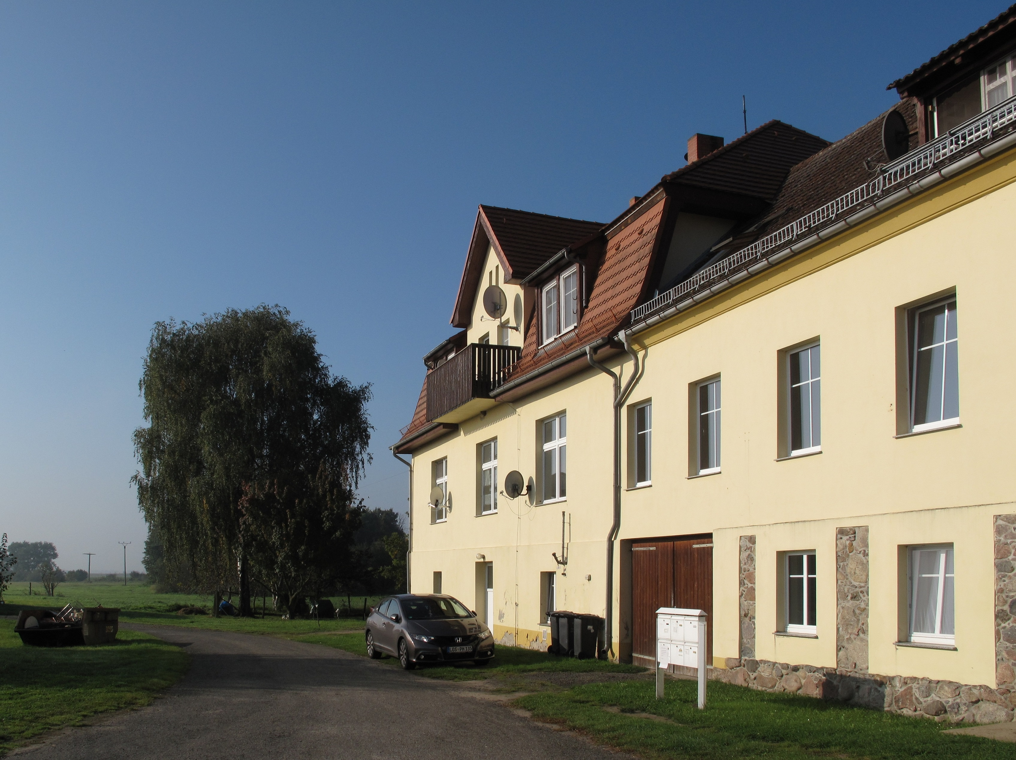 Backside of the former manor house (residential building today) in Falkenberg, a part (german: Ortsteil) of the municipality Tauche in the District Oder-Spree, Brandenburg, Germany.